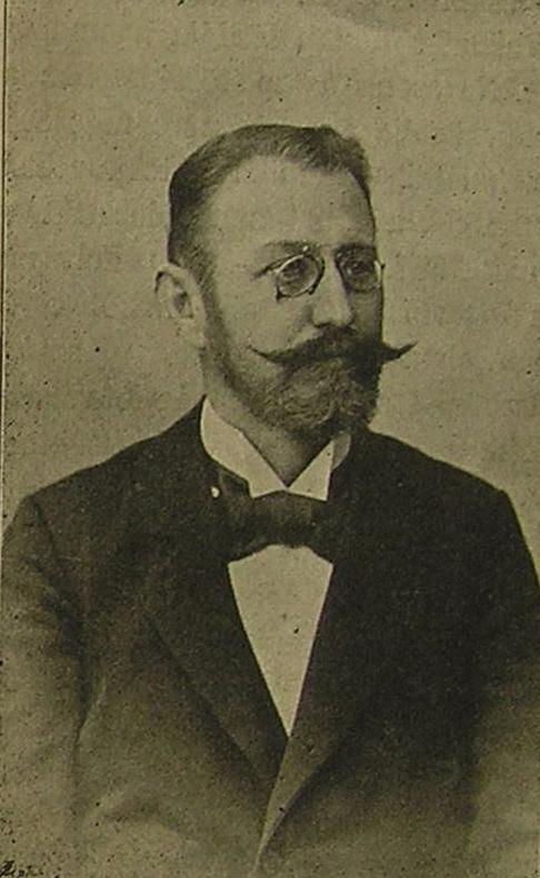 József Margitai (Josip Margitaj, Jožef Margitaj, birth name József Majhen). Born in Črenšovci 1854, death in Budapest 1934. Was a writer, teacher and magyarizator propagandist in Međimurje.